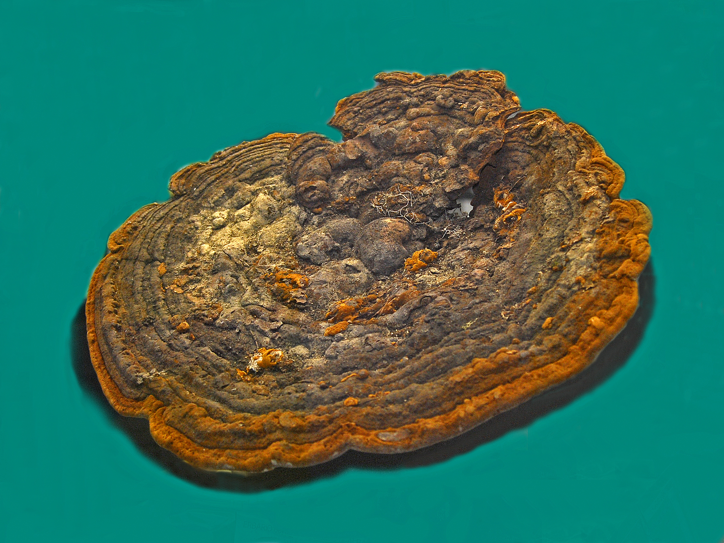 Fuscoporia torulosa. Museum specimen on display at the useo Archeologico e di Scienze Naturali F. Eusebio, Alba, Italy